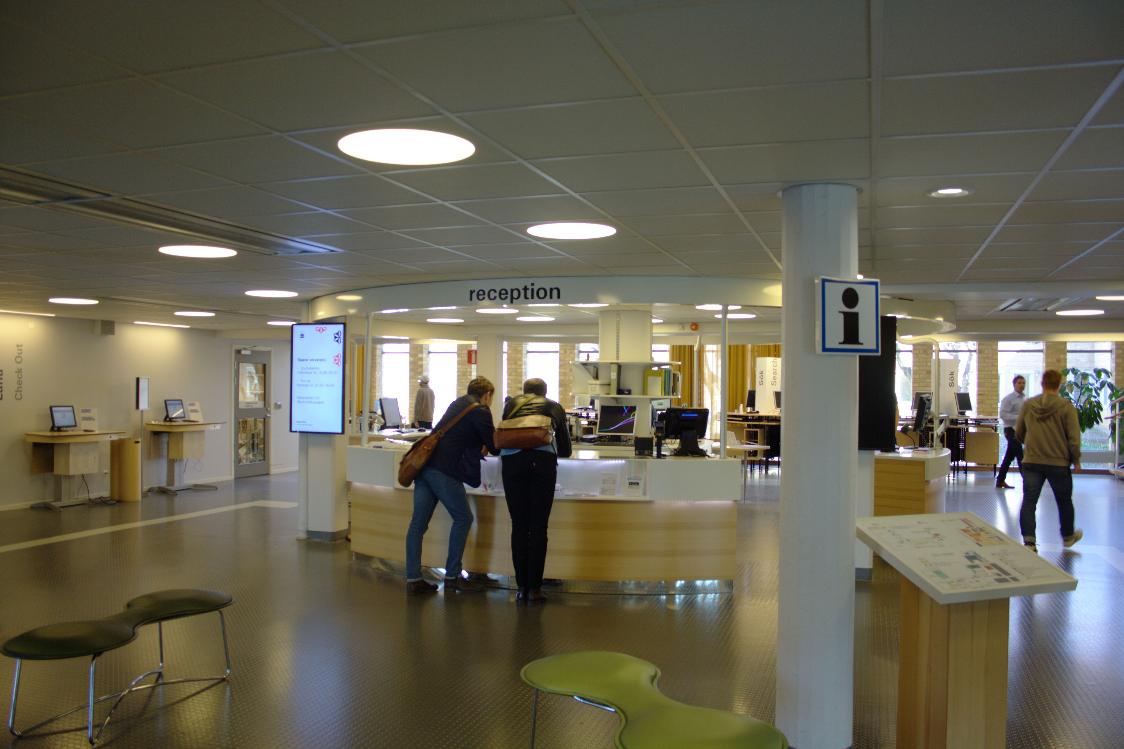 Umeå University Library's Front Desk